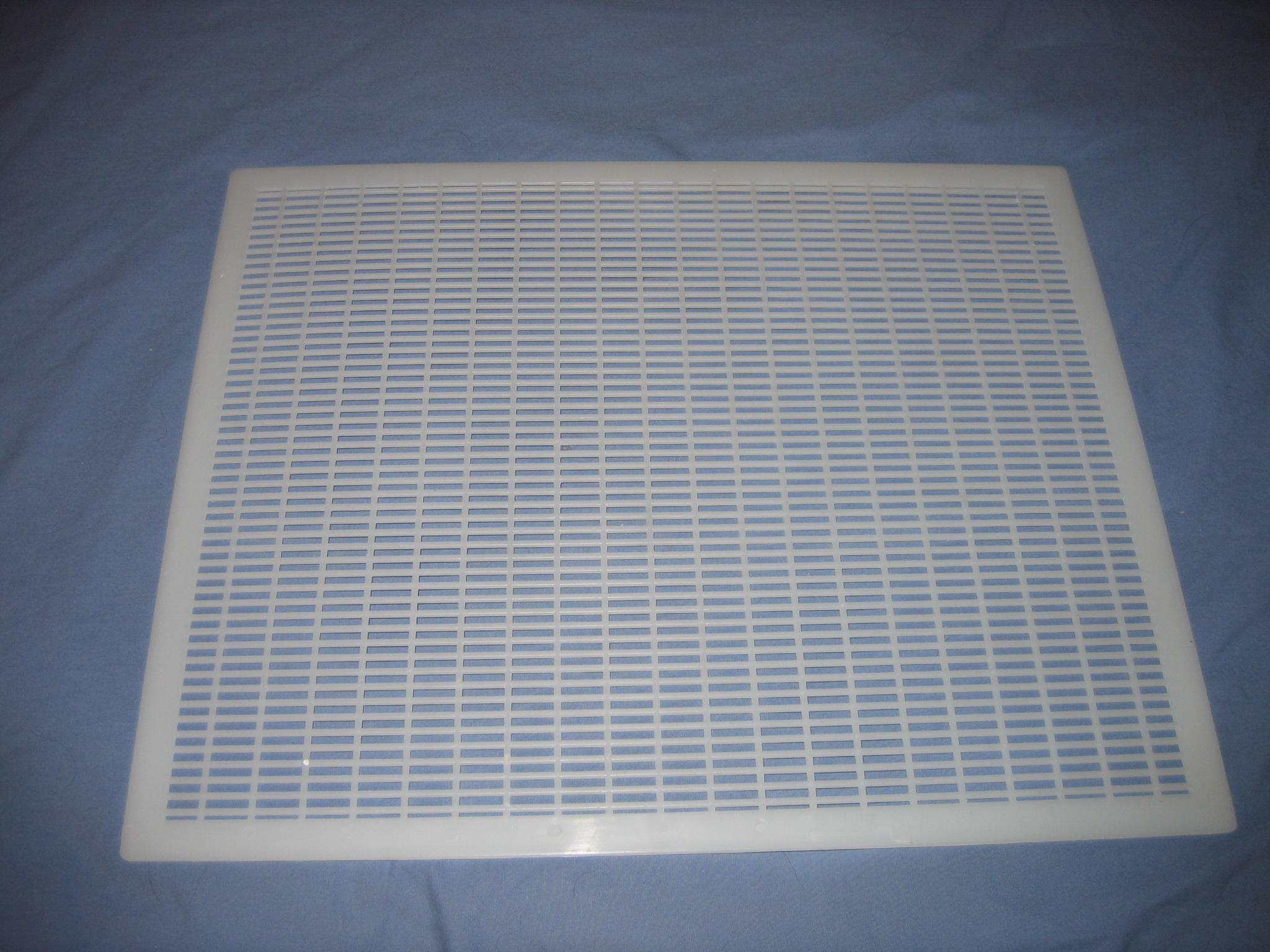 Photograph of a plastic queen excluder take by Robert Engelhardt. This picture was taken specifically for the Beekeeping Wiki book, but may be used for any purpose for which it is fit.